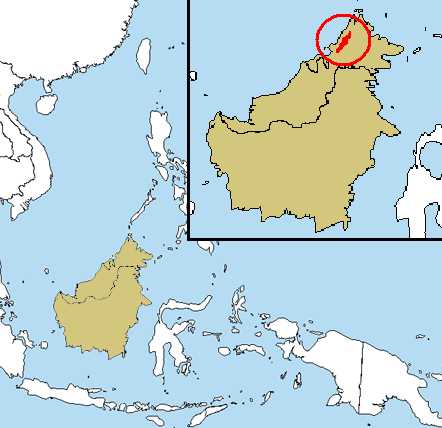 Crock Range map. Sabah, Eastern Malaysia.